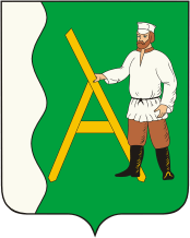 Alekseevskoe (Krasnodar krai), coat of arms